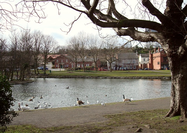 Askern colliery and coking plant stood on the hill in the background, closing in 1991.